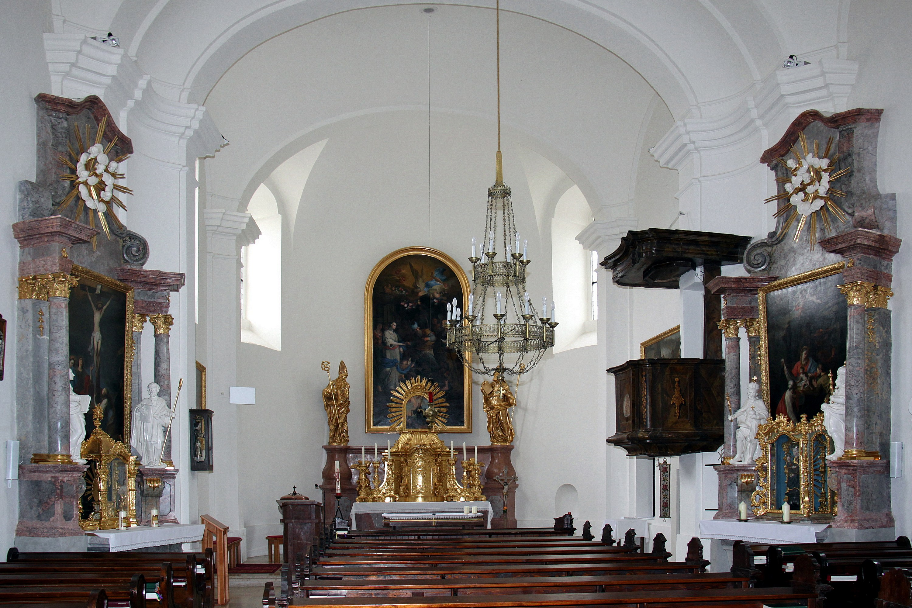 Parish church holy Leonhard - Walbersdorf (municipality Mattersburg). Object location47° 44′ 26.74″ N, 16° 25′ 12″ E